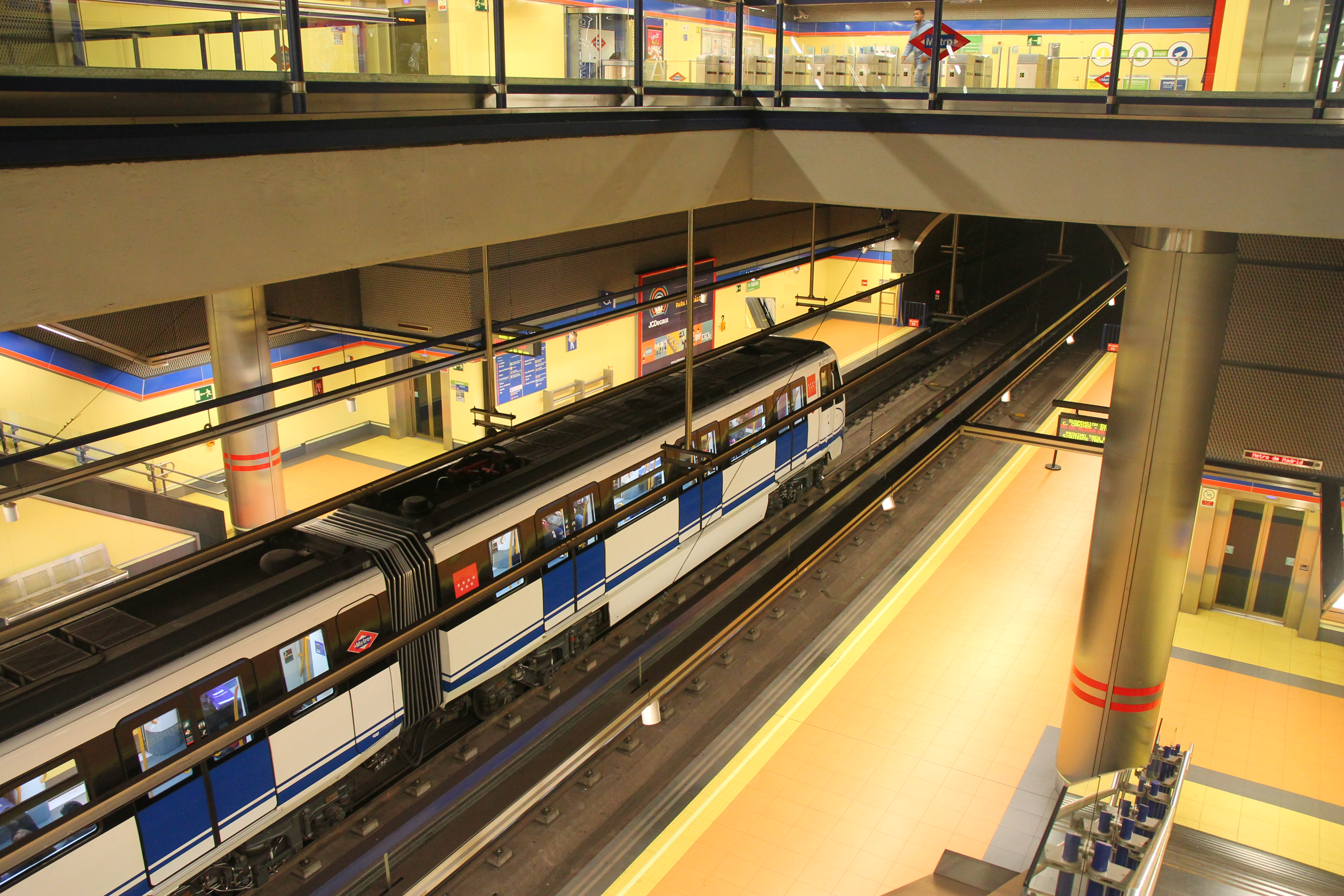 Estación de La Almudena